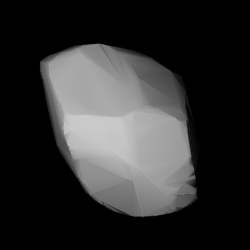 3D convex shape model of 257 Silesia, computed using light curve inversion techniques. J. Hanuš, J. Ďurech, M. Brož, B. D. Warner (June 2011). "A study of asteroid pole-latitude distribution based on an extended set of shape models derived by the lightcurve inversion method". Astronomy and Astrophysics 530: A134. ISSN 0004-6361. arXiv